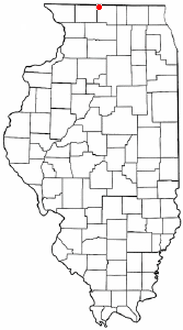 Category:Illinois city locator maps